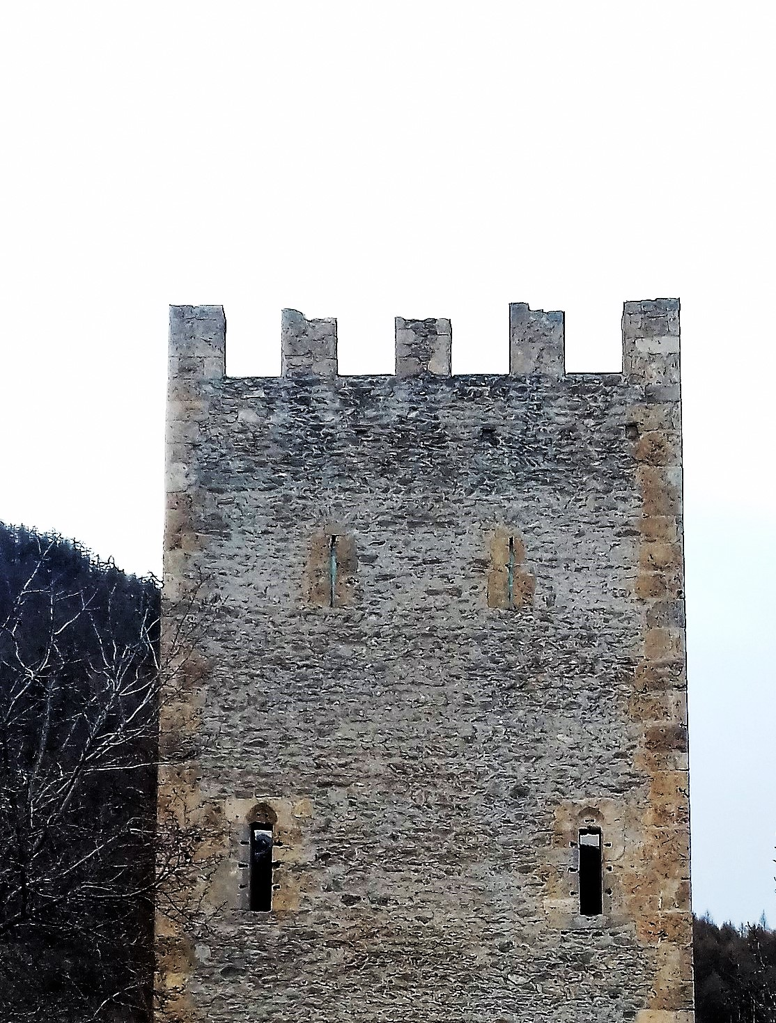 Tower of Oulx (TO)